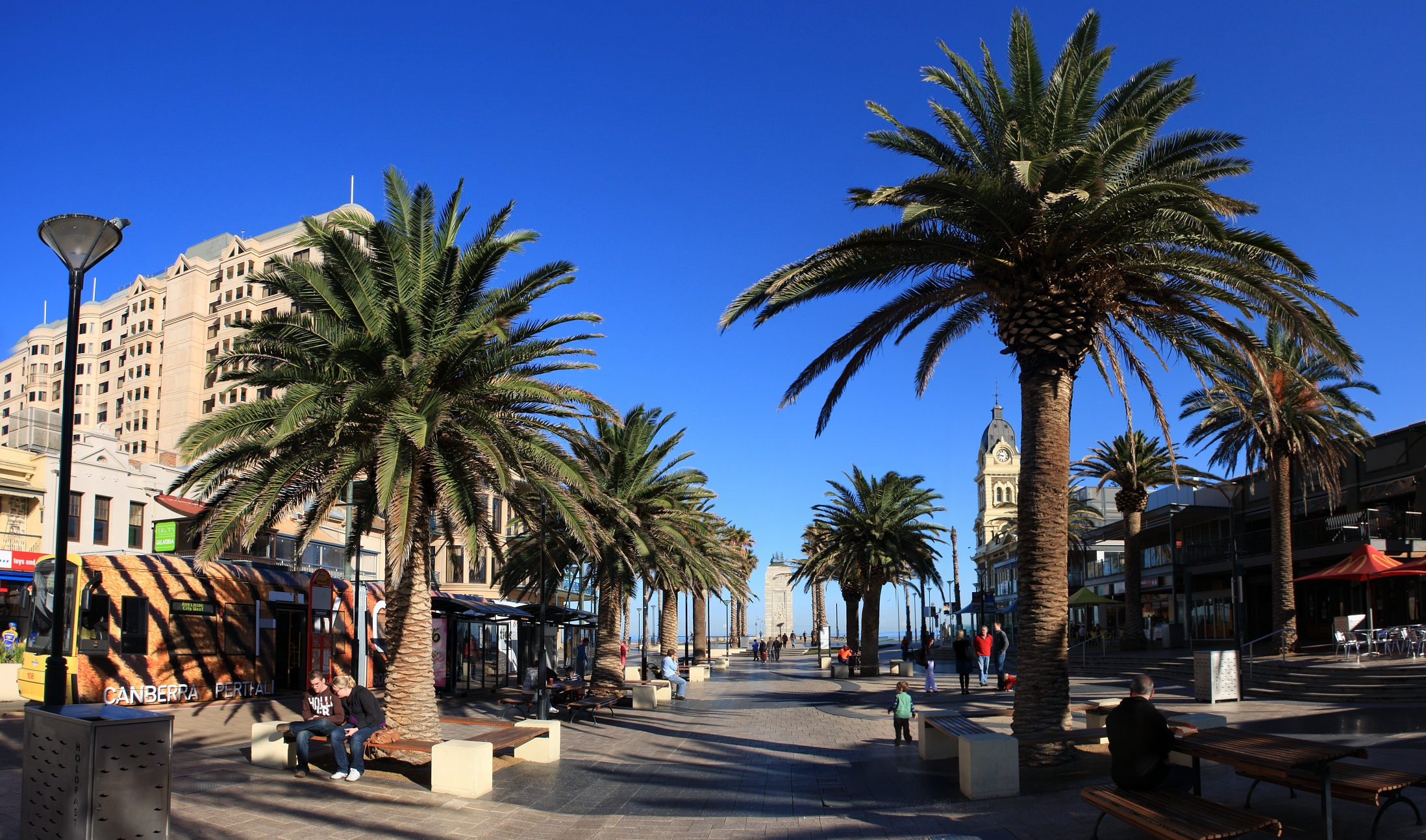 Glenelg South Australia, about a half hour tram trip from the Adelaide cbd